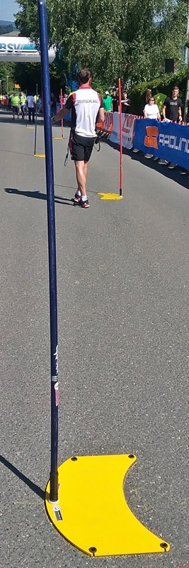 Slalom gate